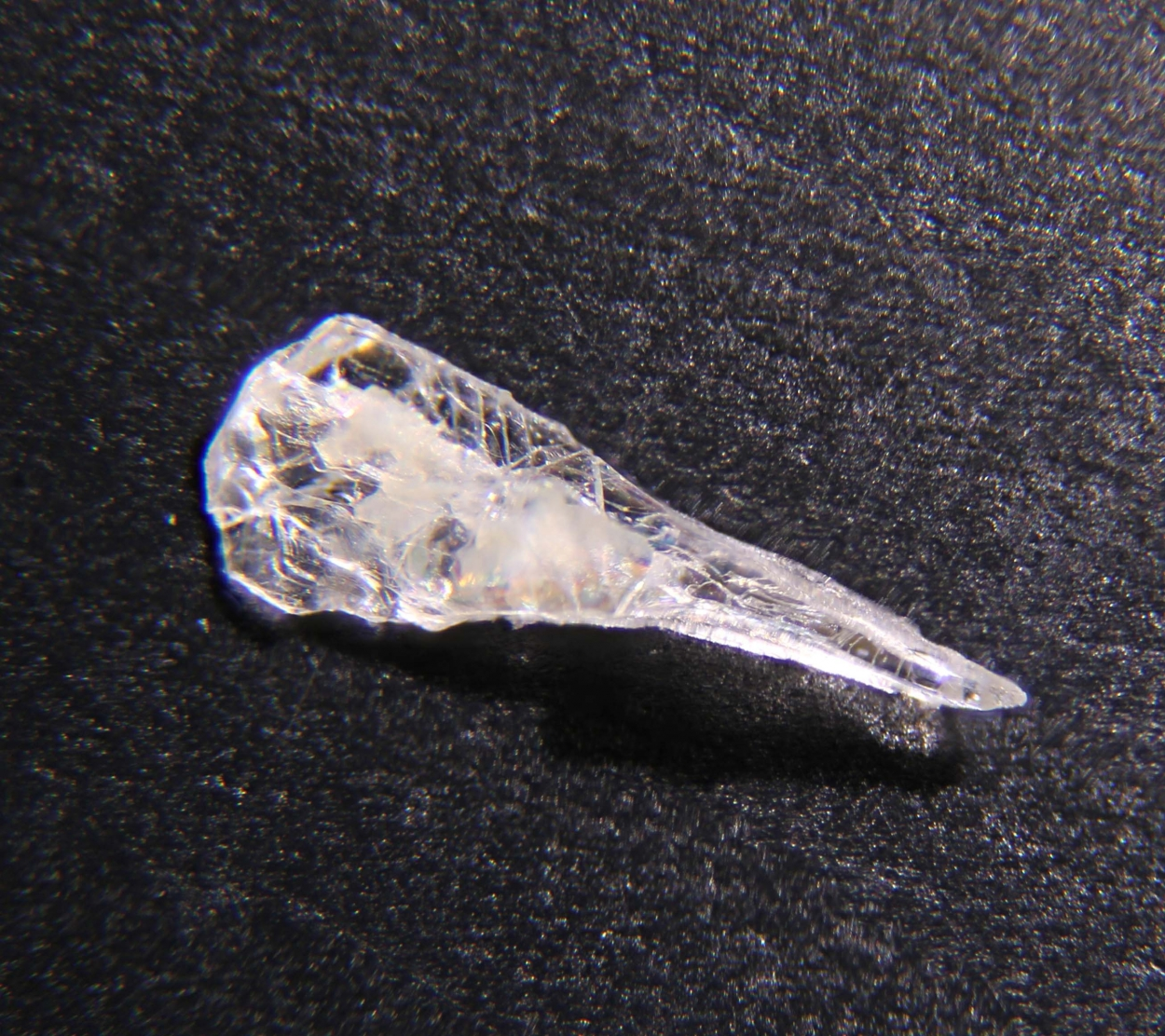 Single isolated colorless crystal of the extremely rare mineral diaoyudaoite from one of the few localities known worldwide. From: Port Elizabeth, Newark, Essex County, New Jersey, United States of America